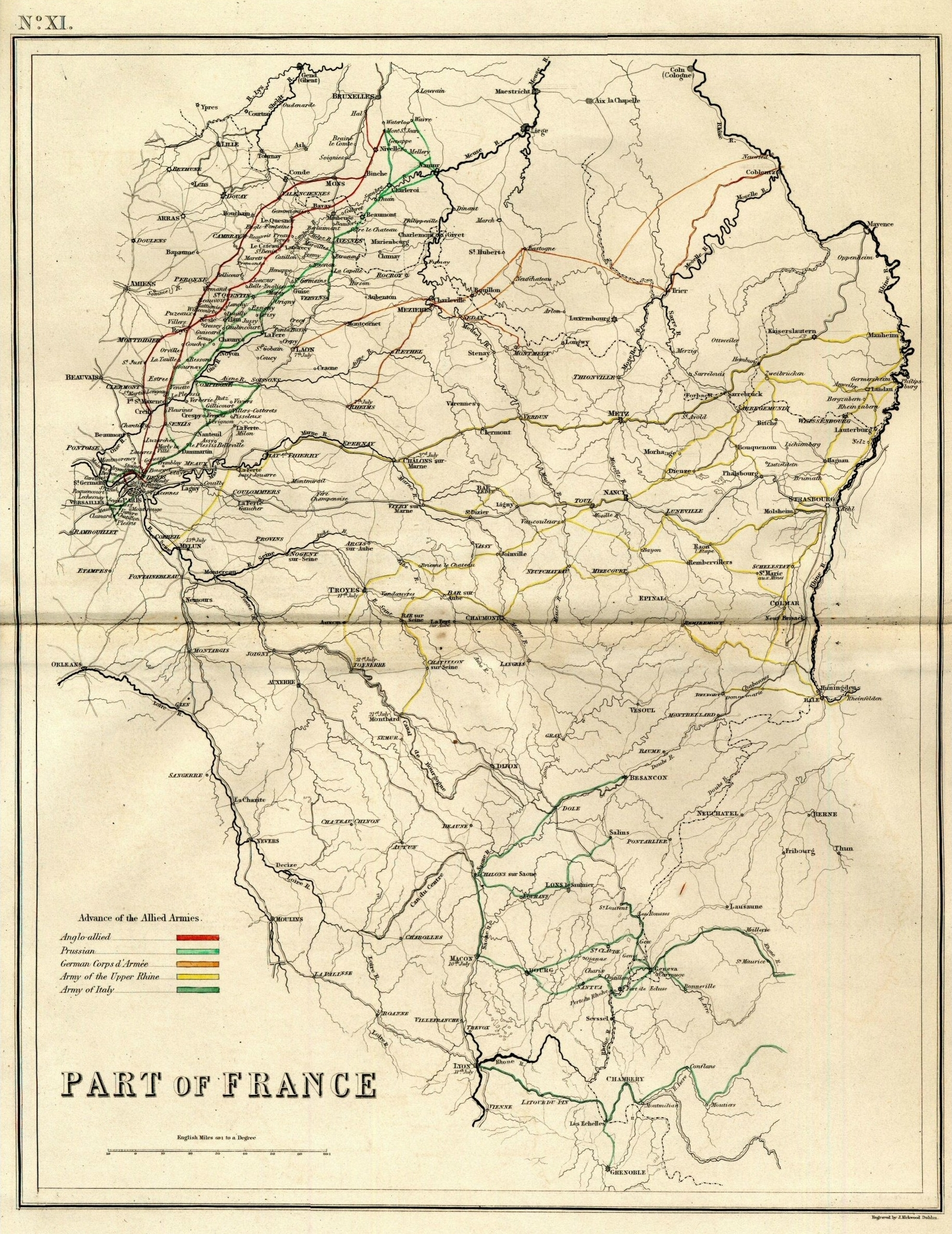 A portion of northern and eastern France and the colour coded lines of advance of five different Seventh Coalition armies.